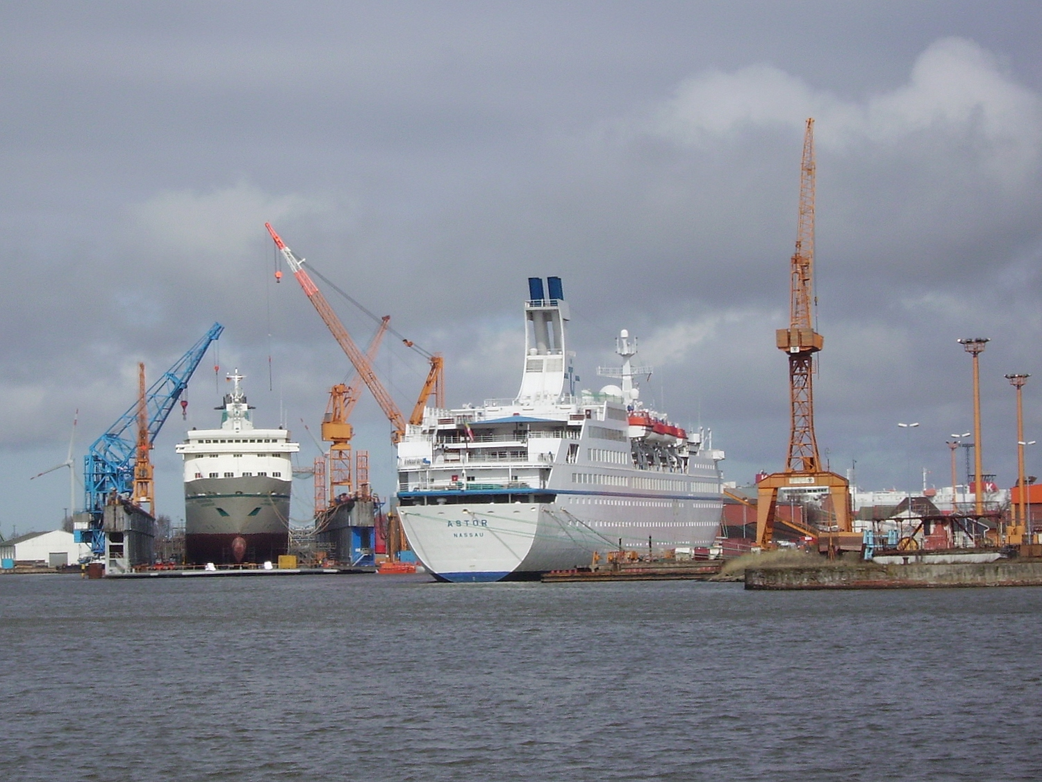 Two passenger ships at the Lloyd shipyard in Bremerhaven, Germany. On the left in the dock, the passenger ship "Alexander von Humboldt", on the right the passenger ship "Astor".